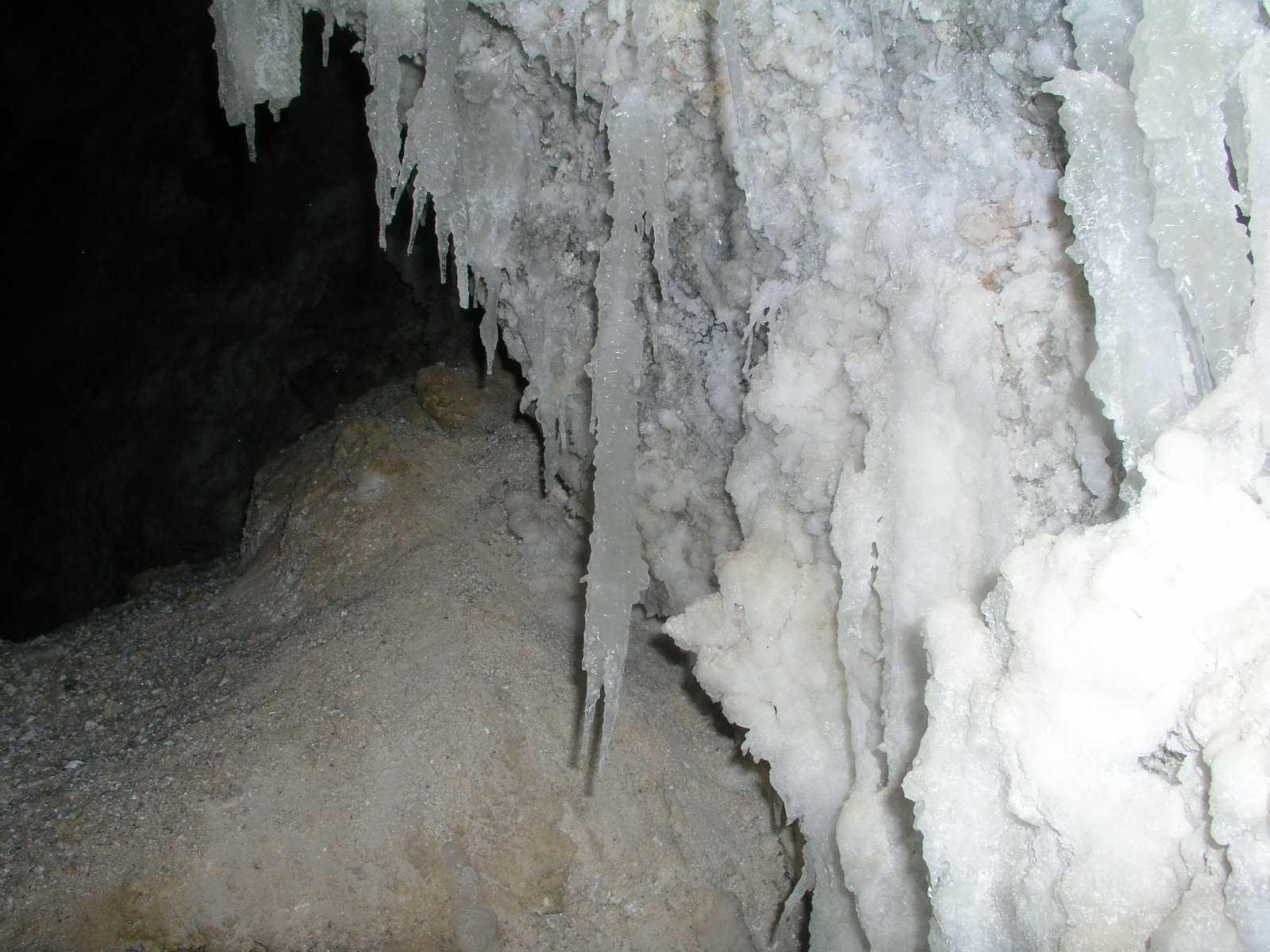 Epsomite in a New Mexico cave Category:Speleothems